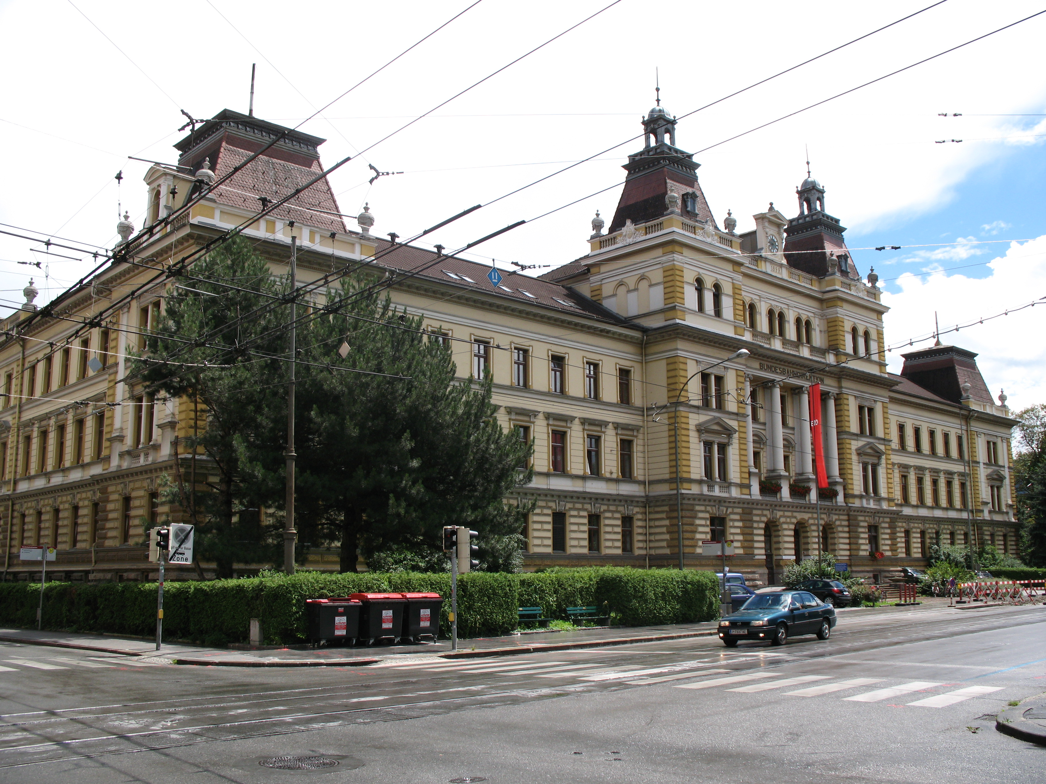 Federal Railways Directorate, Innsbruck, Austria